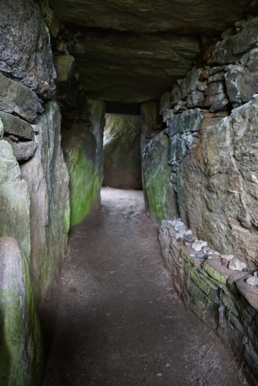 Bryn Celli Ddu Burial Chamber, Anglesey, Wales. Passage way looking towards entrance.